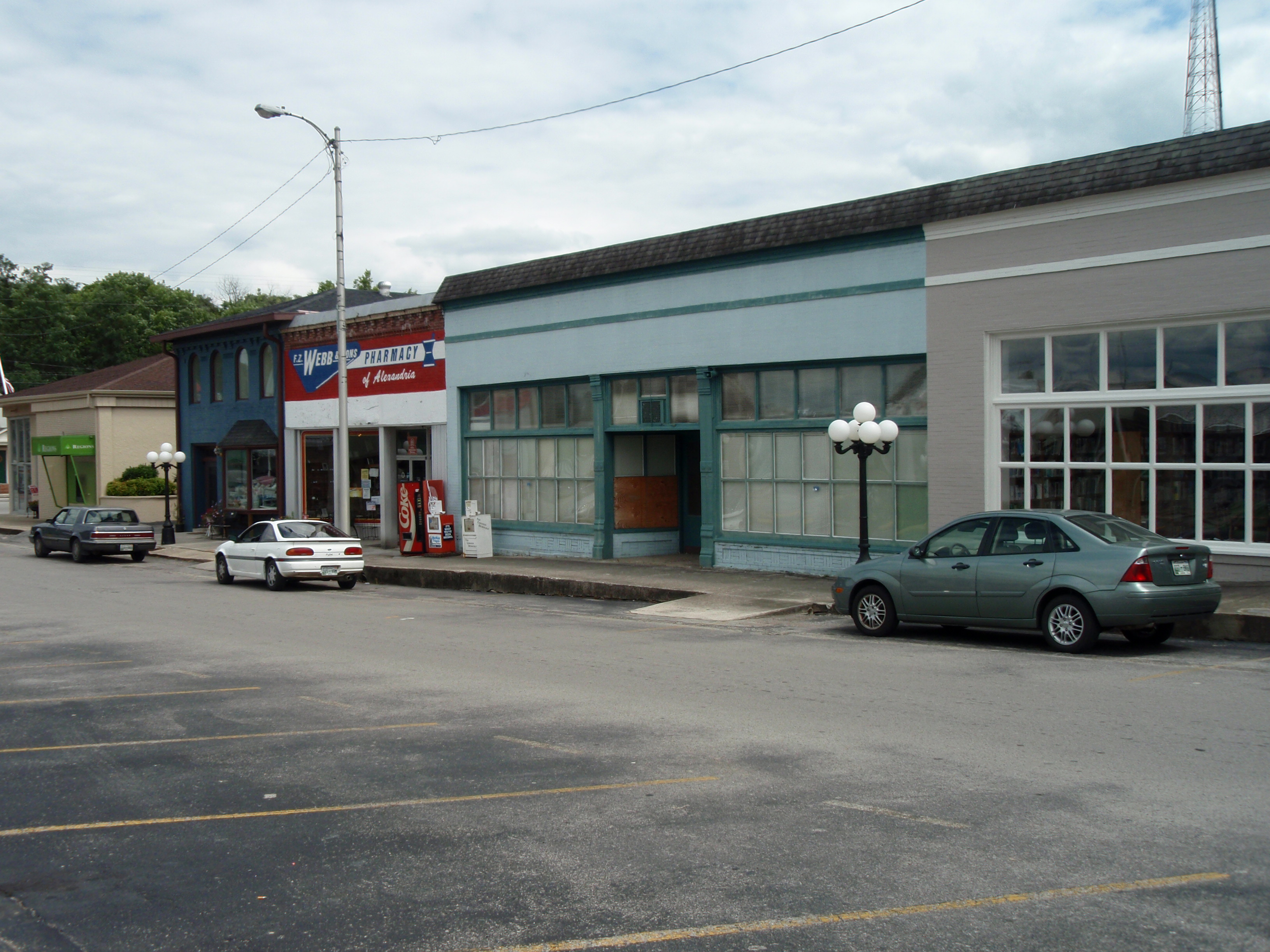 Downtown Alexandria, Tennessee, United States